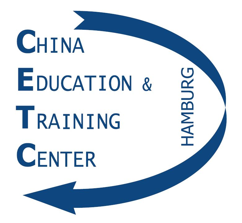 This is the logo of CETC (China Education and Training Center), a sub-organization of Caissa Touristic (Group) AG.